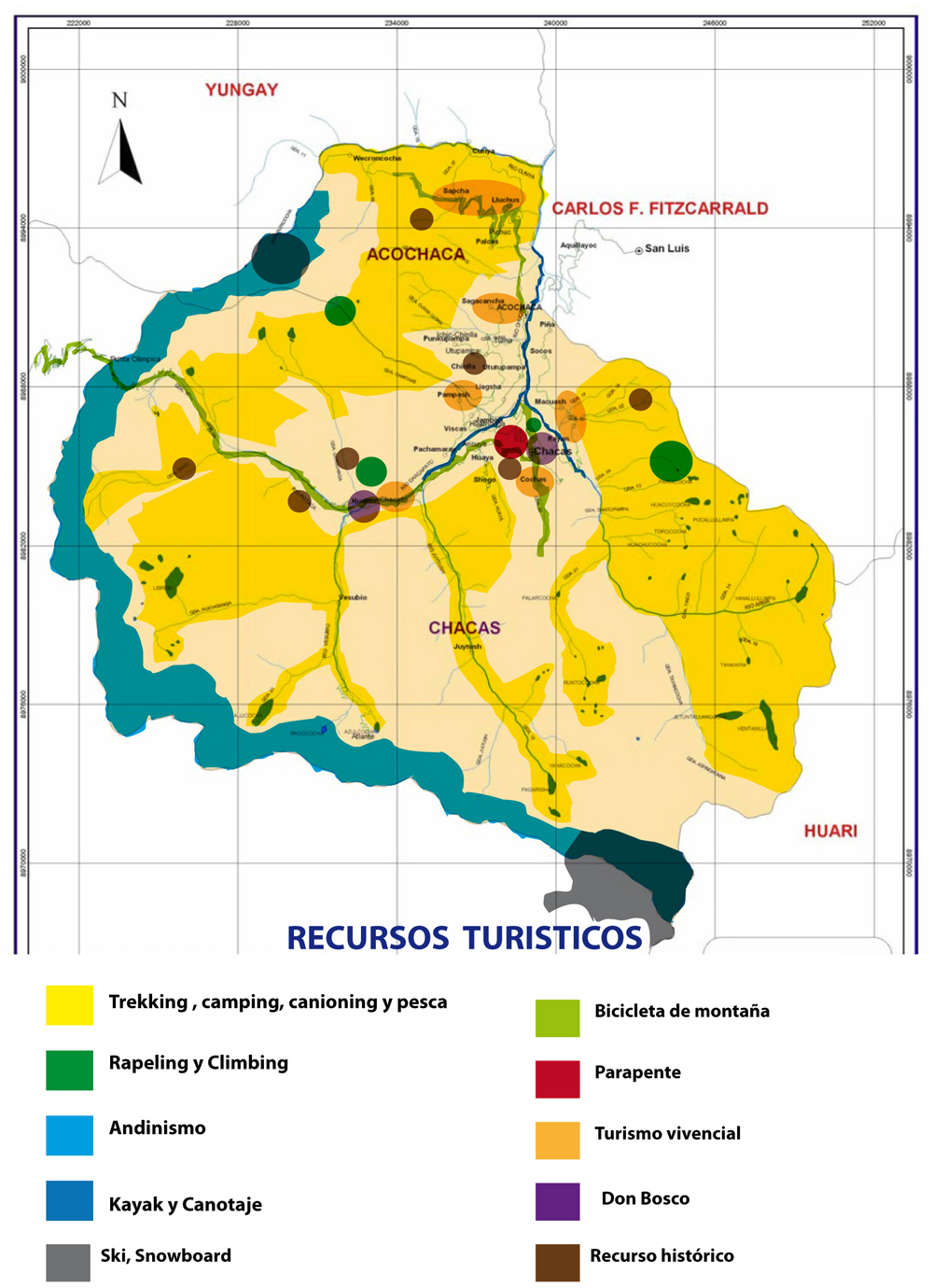 Asuncion is the province Conchucos Zone, with the potential tourist, has more than 30 lakes, 6 snow-capped peaks, two ski areas and the beautiful scenery for hiking, camping, fishing, canoeing, kayaking, etc.